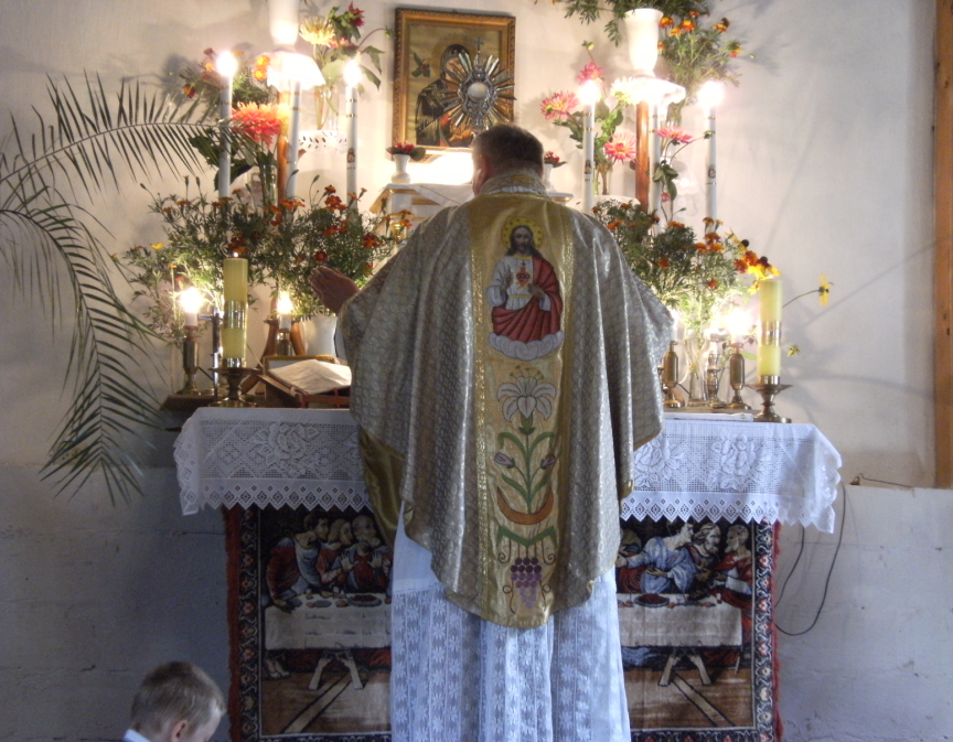 Old Catholic Mariavite Church in Wierzbica